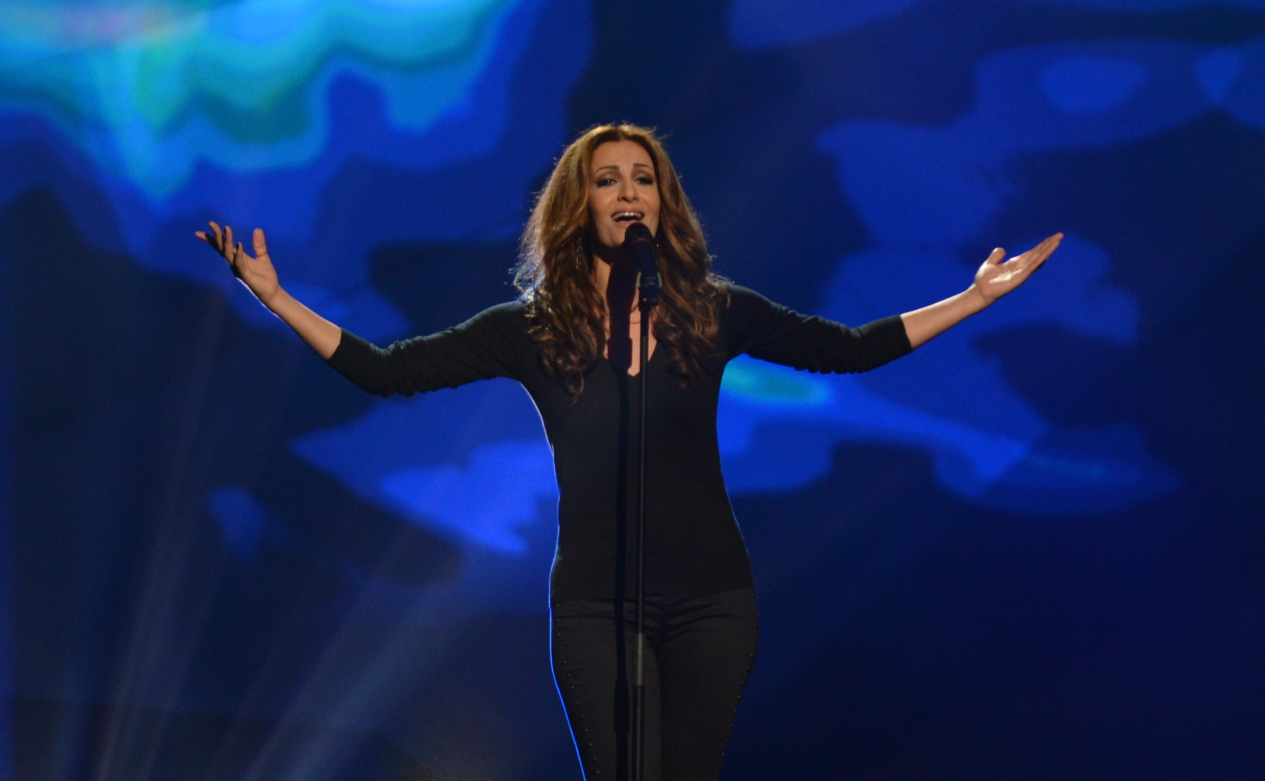 Despina Olympiou representing Cyprus with the song "An me thimase" (Aν με θυμάσαι) during the first dress rehearsal of the first semi final of the Eurovision Song Contest 2013 in Malmö. (Help translate this text)